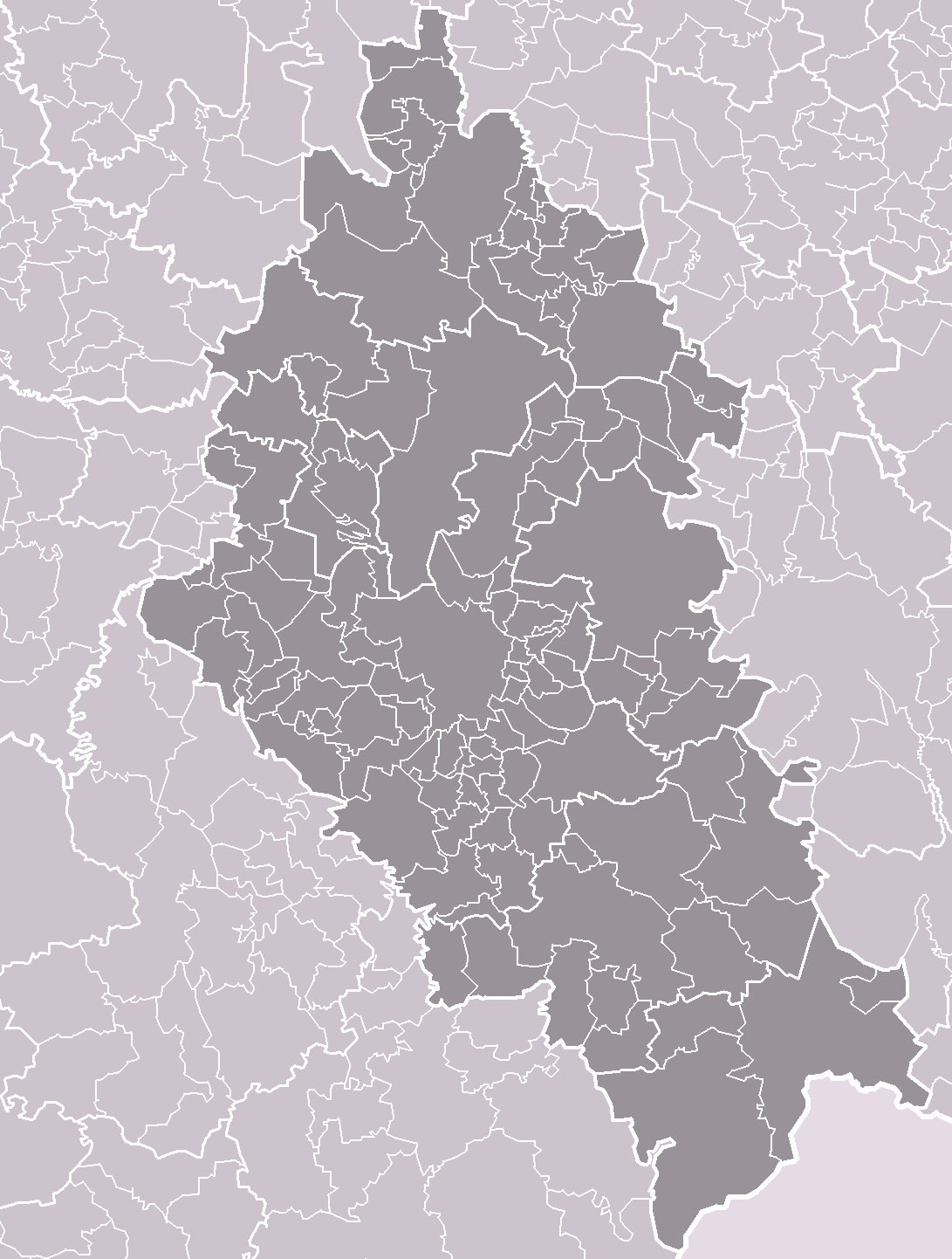 Extent of České Budějovice District as valid since January 1, 2007 (109 municipalities in total). White lines of variable thickness show boundaries of municipalities, administrative areas, districts and countries.